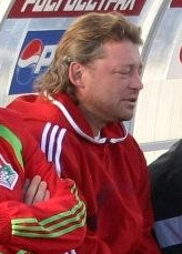 Vasili Kulkov as a coach of FC Lokomotiv Moscow